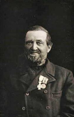 Hans Henning Schroll (1838-1906), Danish farmer and politician